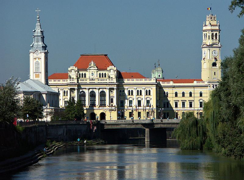 Oradea, Romania, city hall